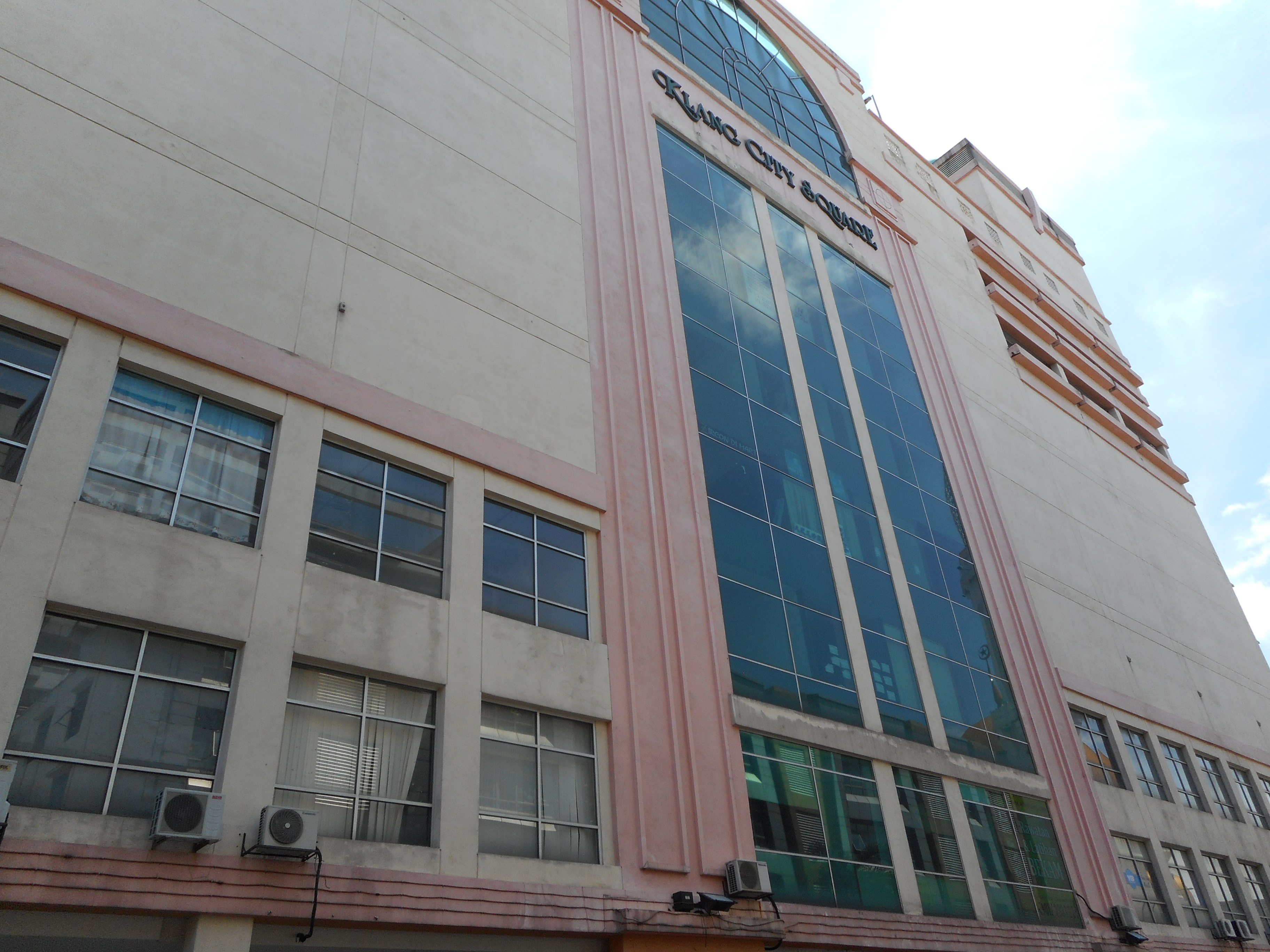 Klang City Square, Klang, Selangor, Malaysia